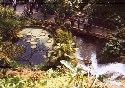 Tropical Biome, Eden Project, Cornwall Taken by me.